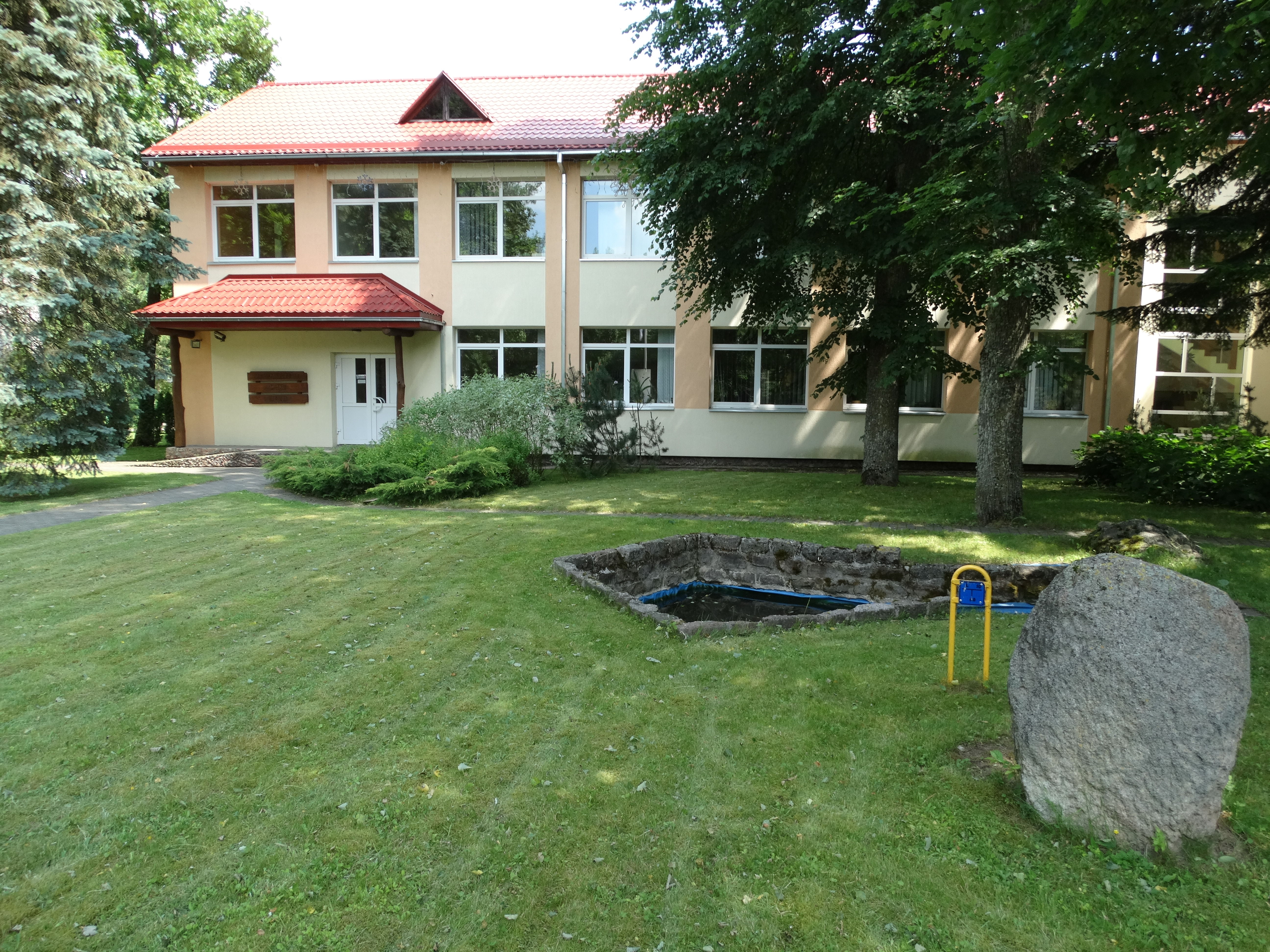 Forest enterprise, Ukmergė, Lithuania